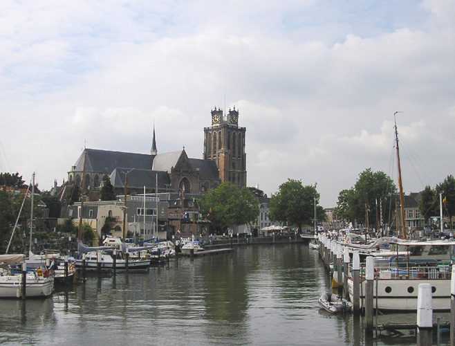 The Grote Kerk (lit. Big Church) in Dordrecht, Netherlands. Also visible is one of the canals.